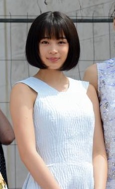 Suzu Hirose at the Cannes film festival